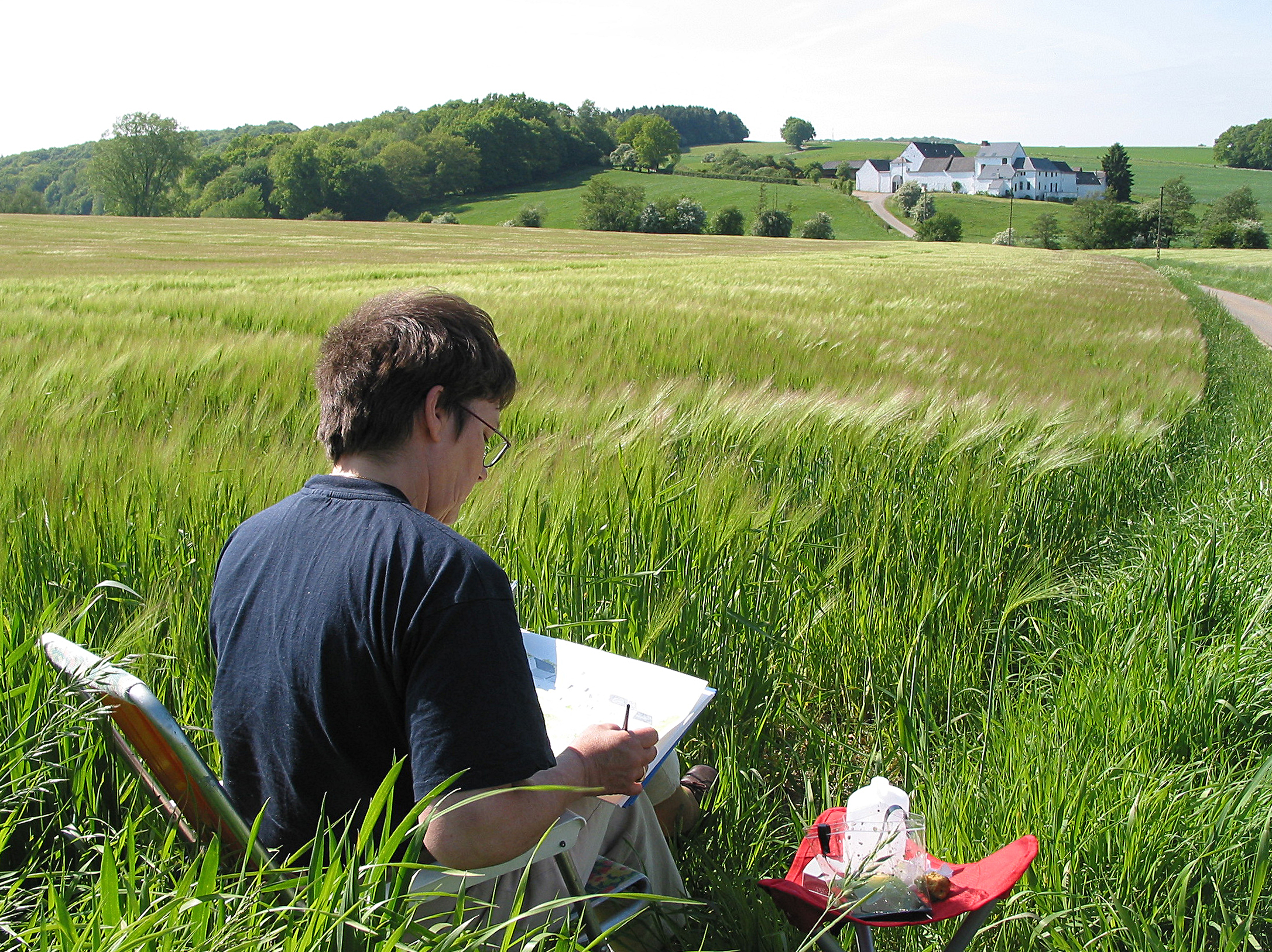 The water colourist, Marie-Claire Lefébure, working in the nature at Mozet (Baseille farm).